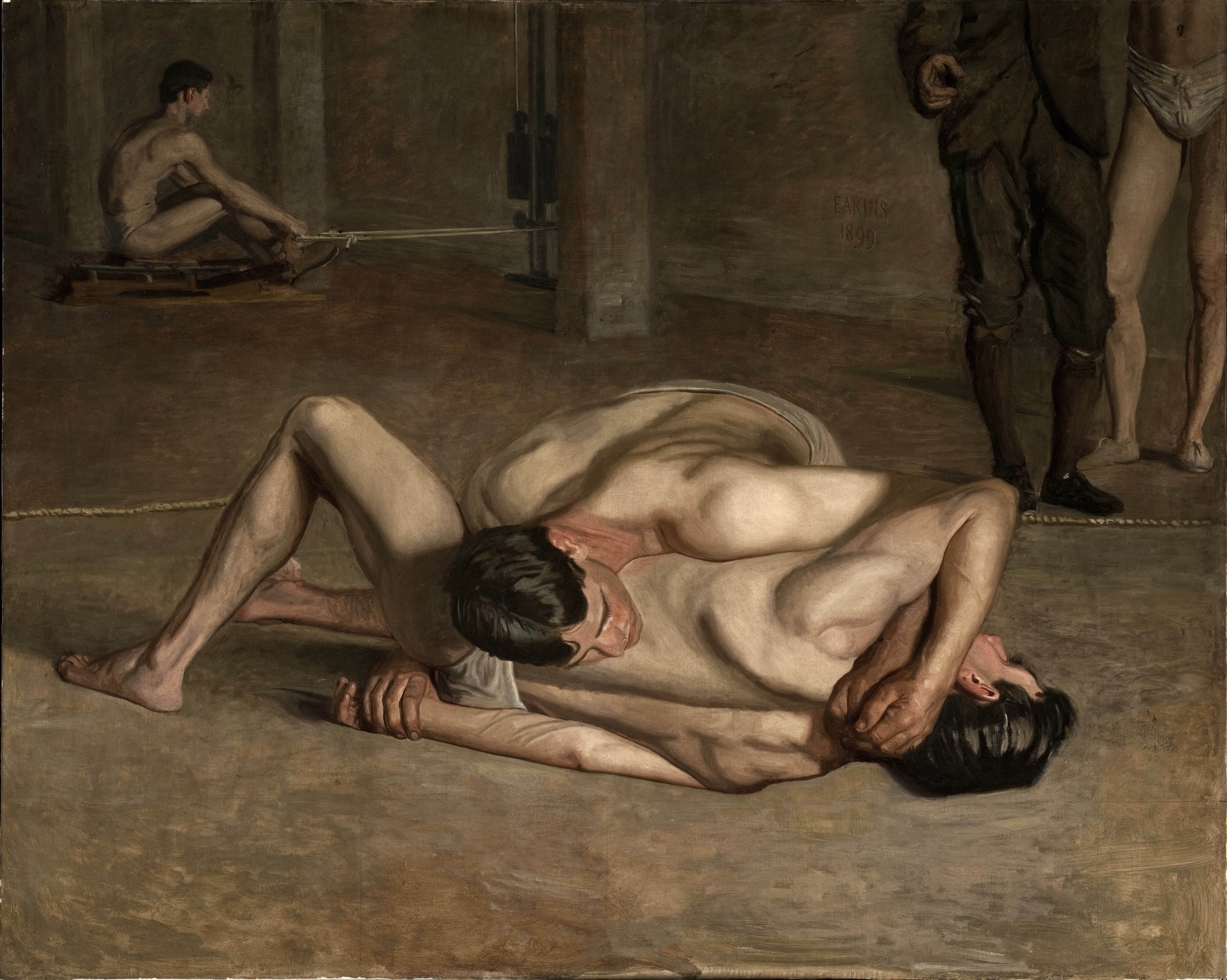 This is the final result after the picture and the sketch which can be seen below.